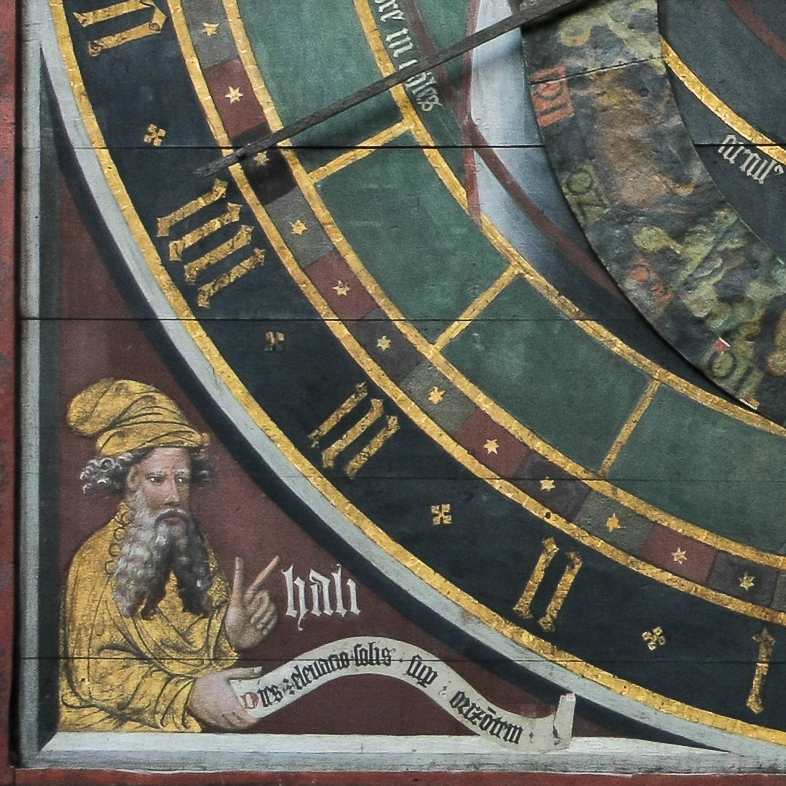 Ali ibn Ridwan on the Astronomic Clock in the Nikolaikirche, Stralsund, Germany